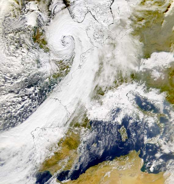 Storm "Oratia" over the Europe October 2000